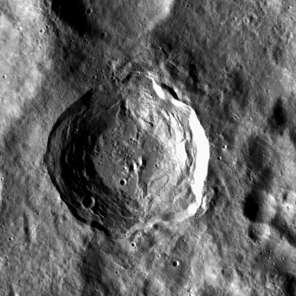 Innes lunar crater - LROC image